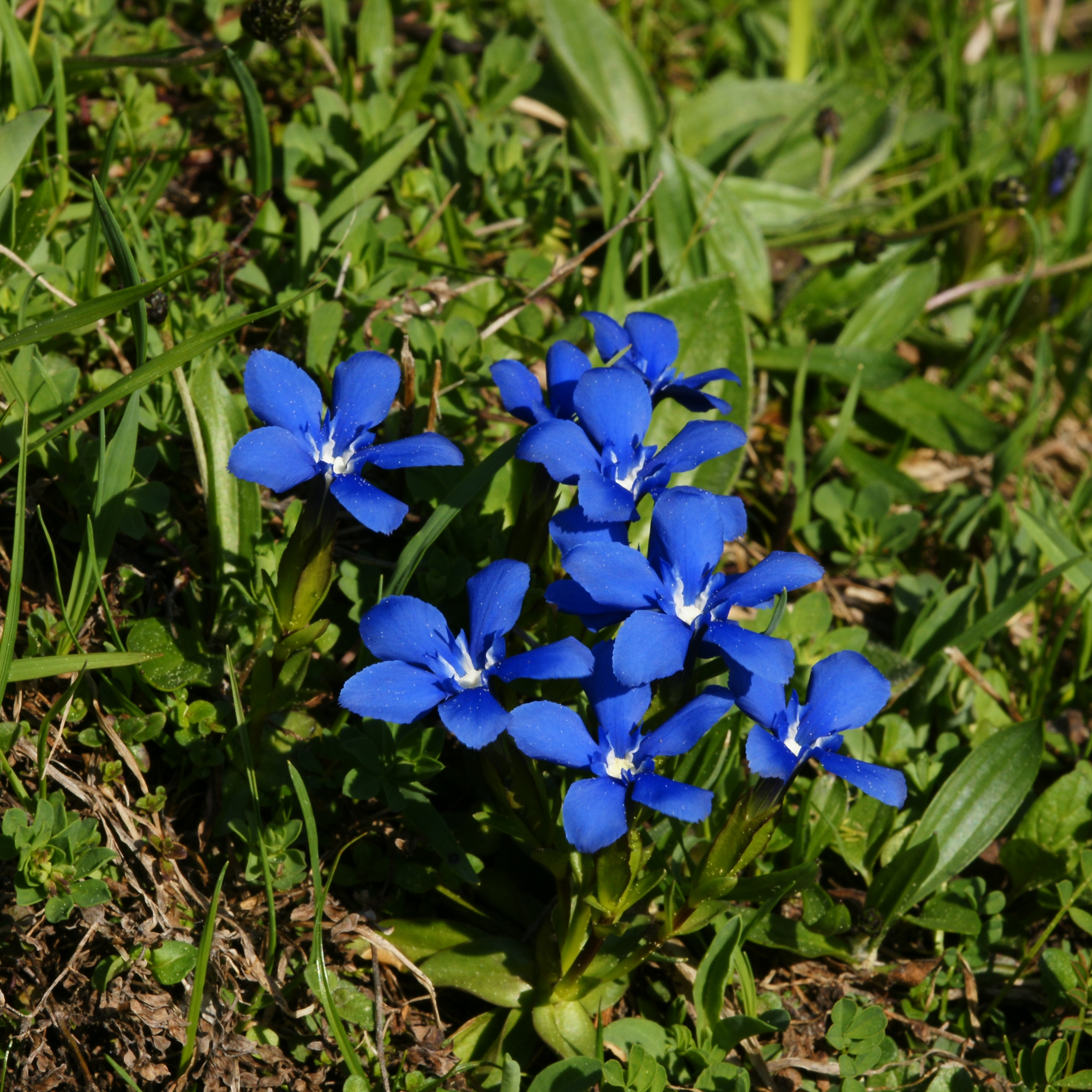 The Spring Gentian (Gentiana verna) is a species of the genus Gentiana and one of its smallest members, normally only growing to a height of a few centimetres.